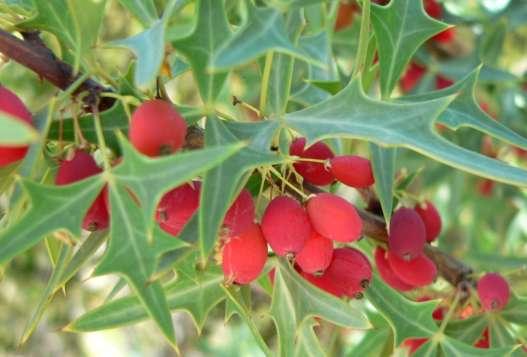 Photo of Berberis trifoliolata at the Springs Preserve garden in Las Vegas, Nevada